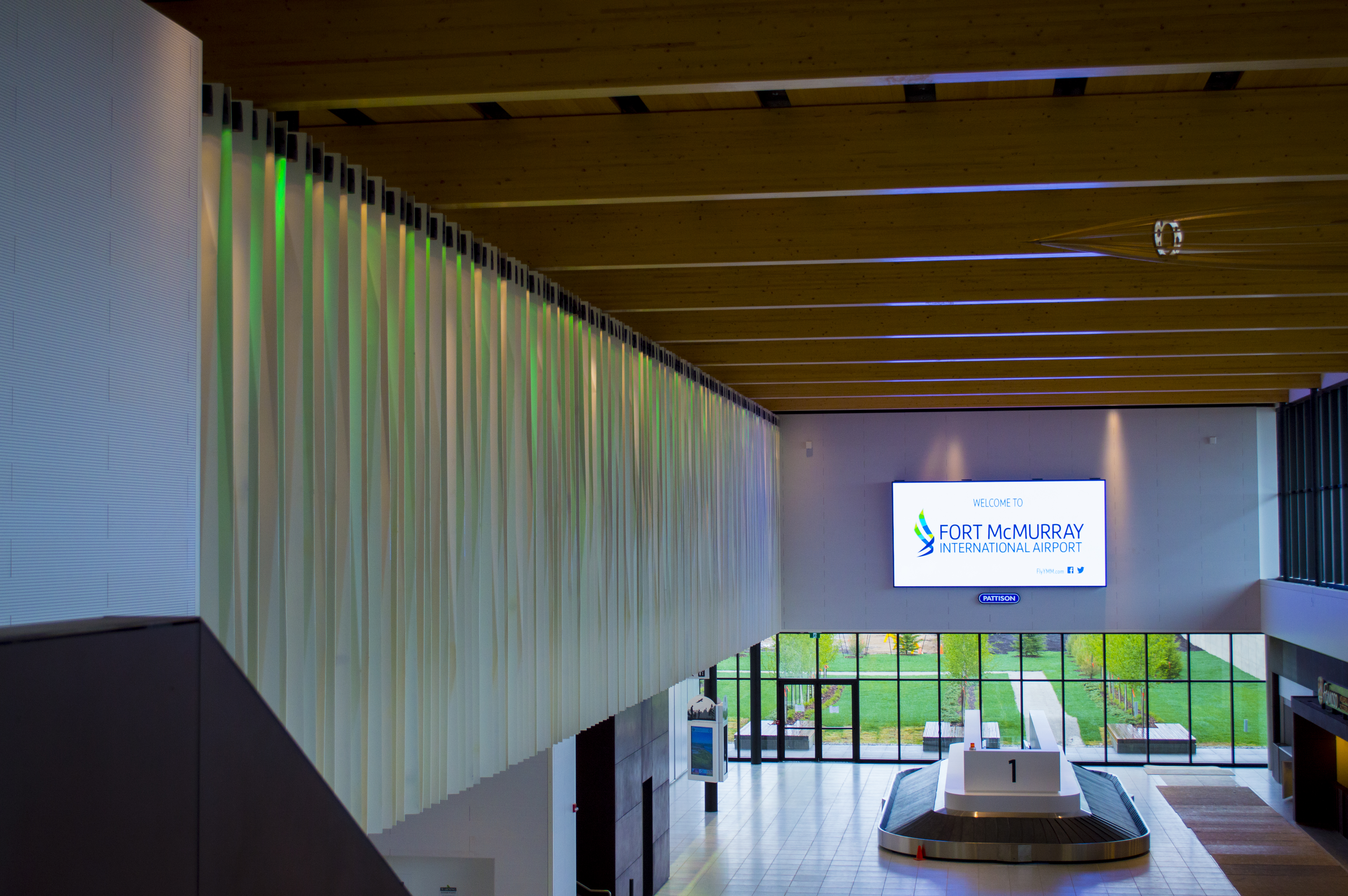 Northern Lights mural in the arrivals hall features the aura borealis and boreal forests for the Wood Buffalo region in northwest Alberta. The over pine beam roof is the largest of its kind in North America.